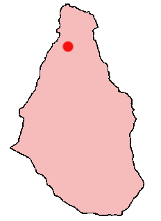 Brades, Monsterrat Location Map; created with the GIMP. Made by User:Acntx.